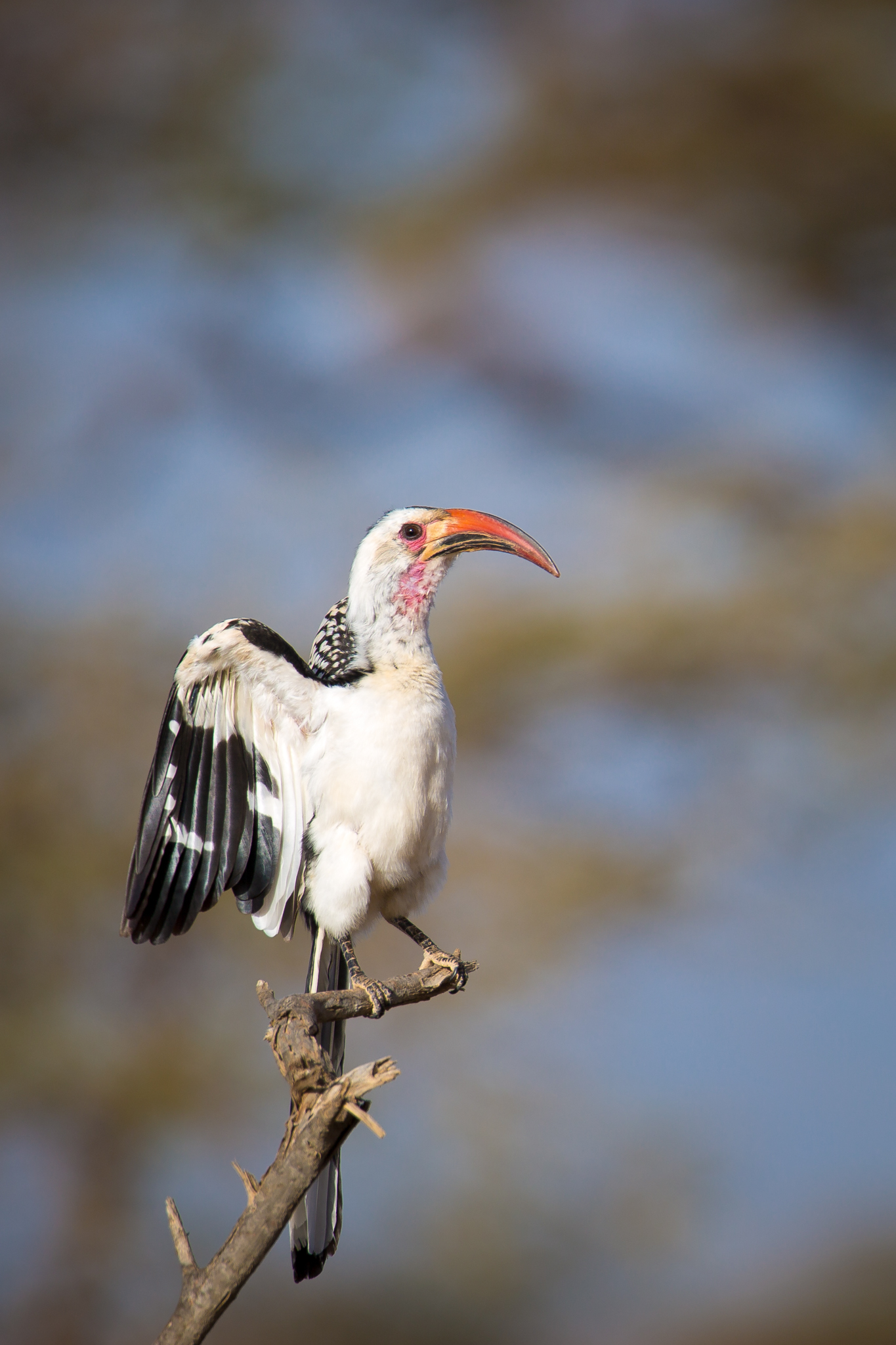 From Buffalo Springs National Reserve